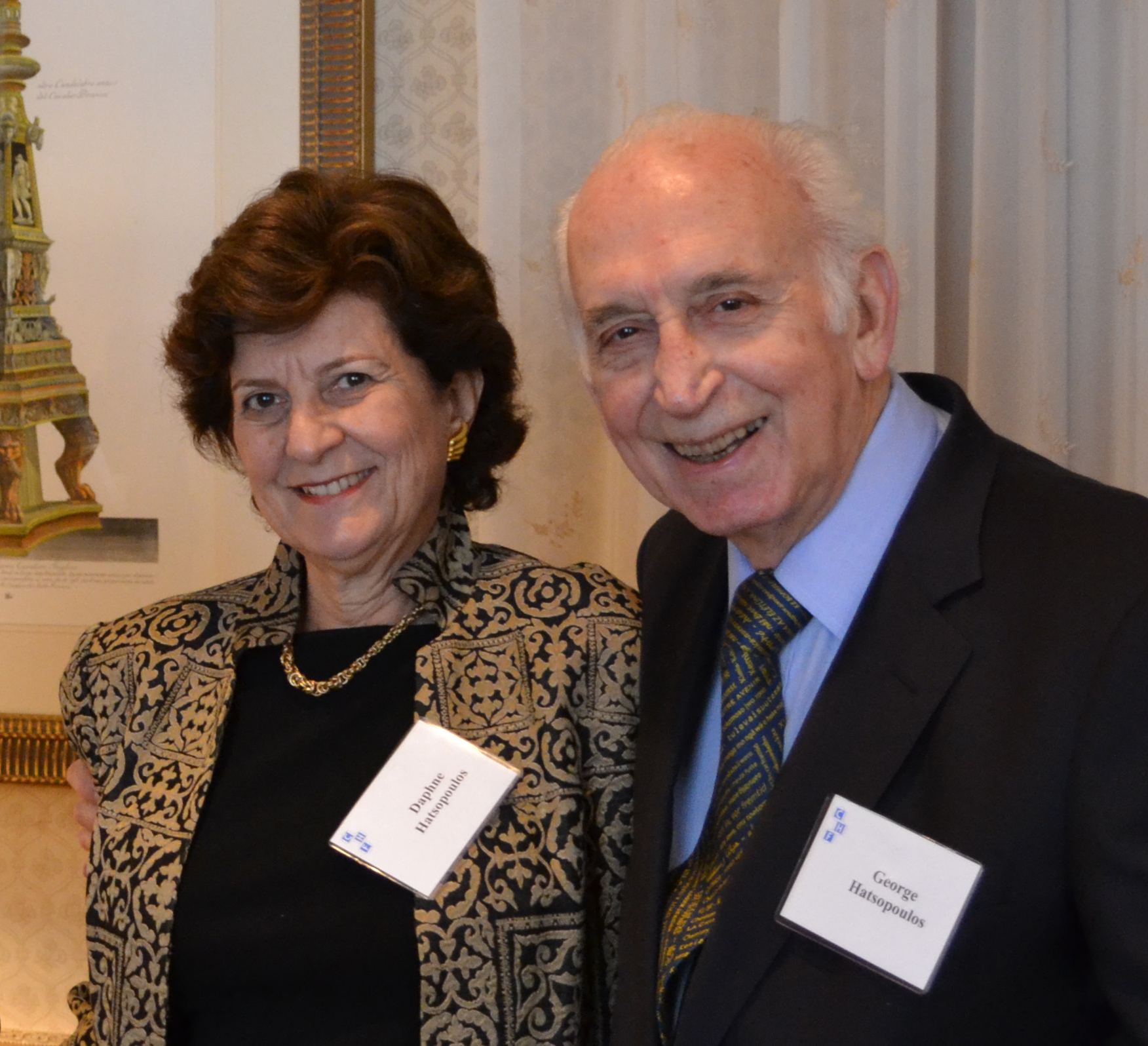 Daphne Hatsopoulos and George Hatsopoulos. Daphne Hatsopoulos and George Hatsopoulos at the 2011 Heritage Day Awards, Chemical Heritage Foundation, Philadelphia, PA, USA. George Hatsopoulos received the 2011 Pittcon Heritage Award.